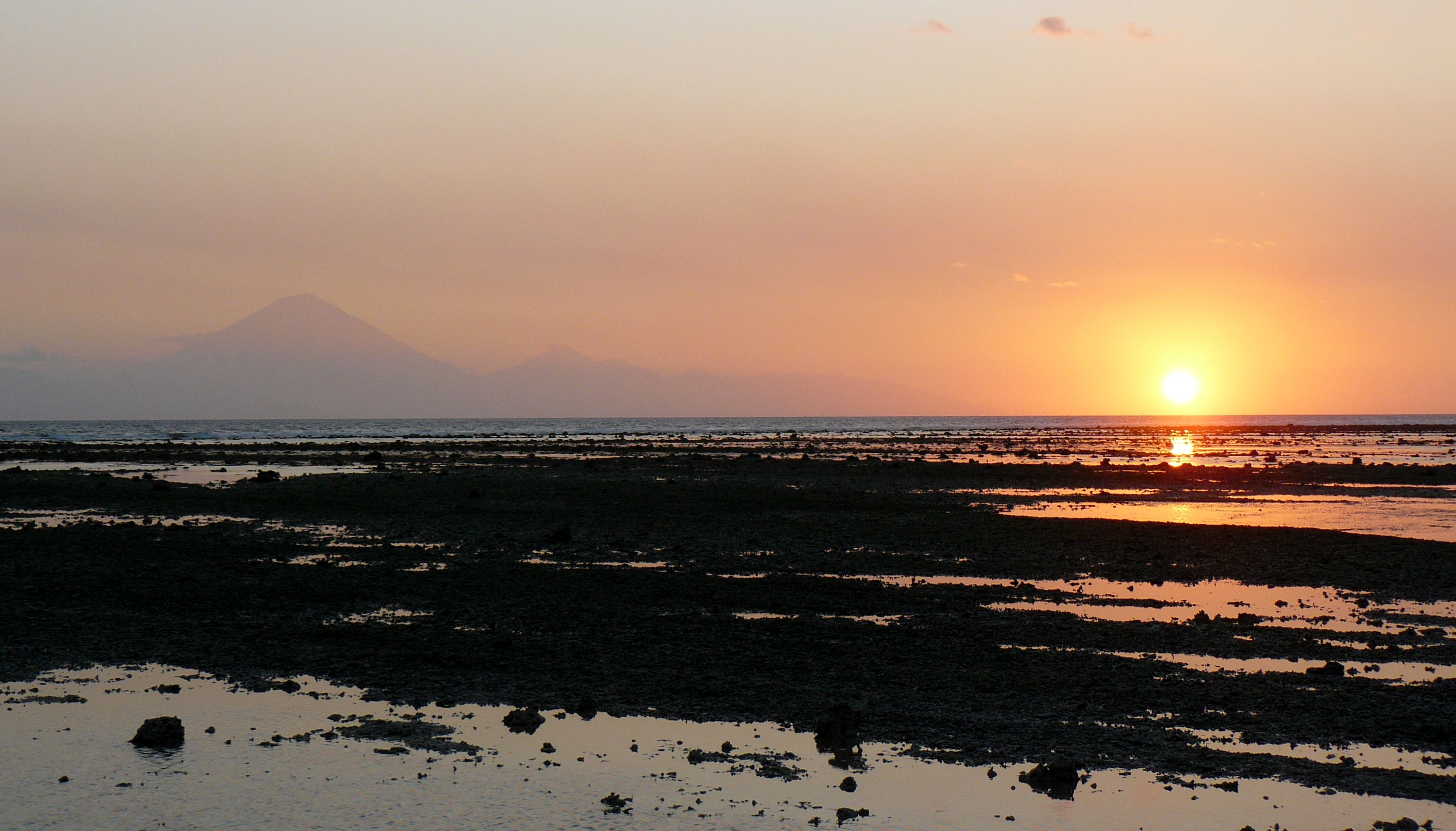 Sunset, Gili Trawangan, Indonesia